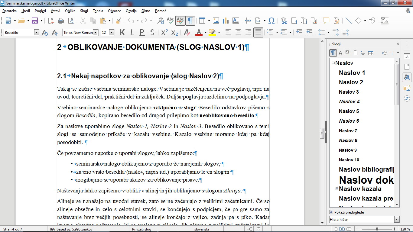 Screenshot of Libreoffice 5.4 Writer on Windows